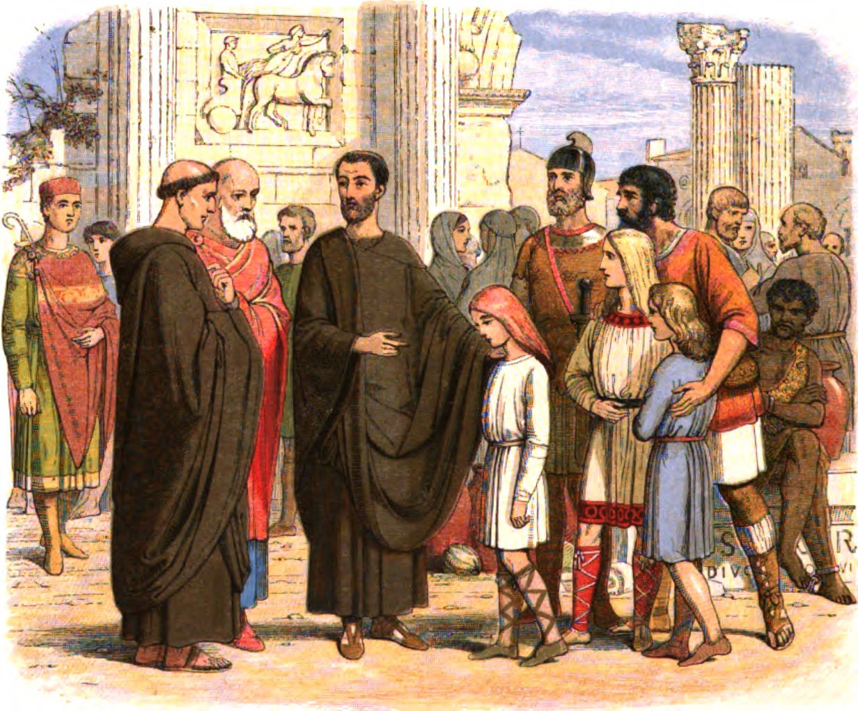 Gregory (later, Gregory the Great and Pope Gregory I) conversing with English slaves in Rome